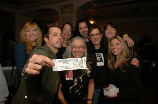 The Layne Staley Foundation w Layne Staley's Mother